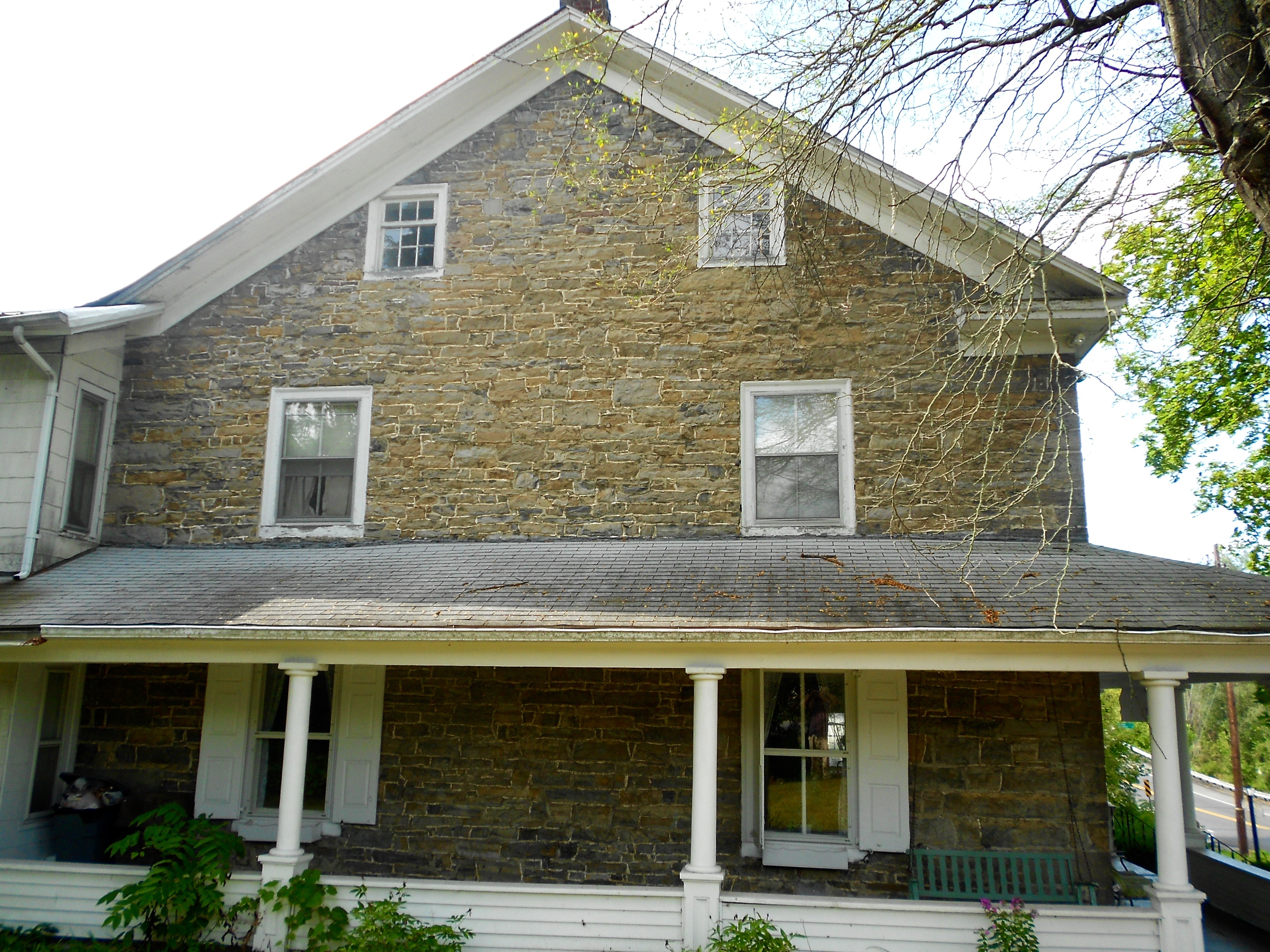 East end of Woodward Inn listed on the NRHP on December 18, 1978 (#78002367). Located at Pennsylvania Route 45 at Woodward, Haines Township, Centre County, Pennsylvania. Sorry for the terrible photo, but it is surrounded by trees 40°53′55″N 77°21′25″W